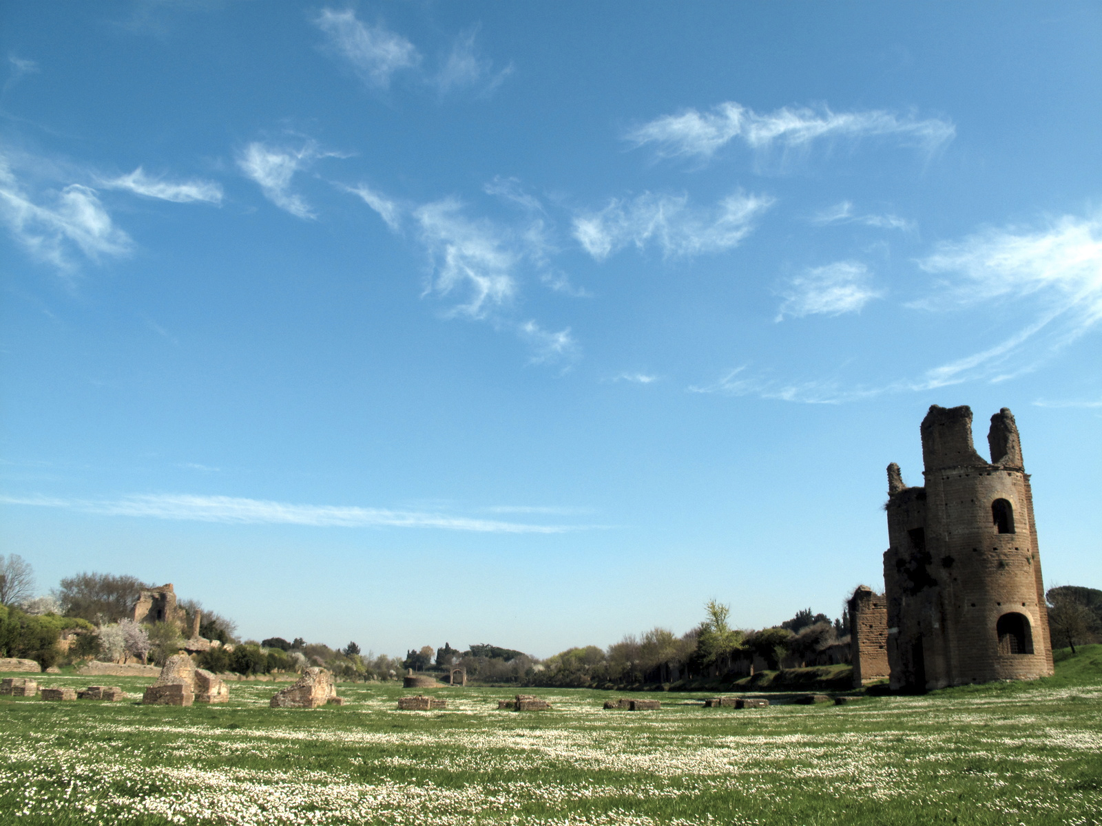 AWIB-ISAW: The Circus of Maxentius on the Via Appia Antica (I) The view across the circus of Maxentius near his villa on the Via Appia Antica, showing the still-standing brick towers on the western end of the circus. by R Rumora (2012) copyright: 2012 R Rumora (used with permission) photographed place: Roma (Rome) Published by the Institute for the Study of the Ancient World as part of the Ancient World Image Bank (AWIB). Further information